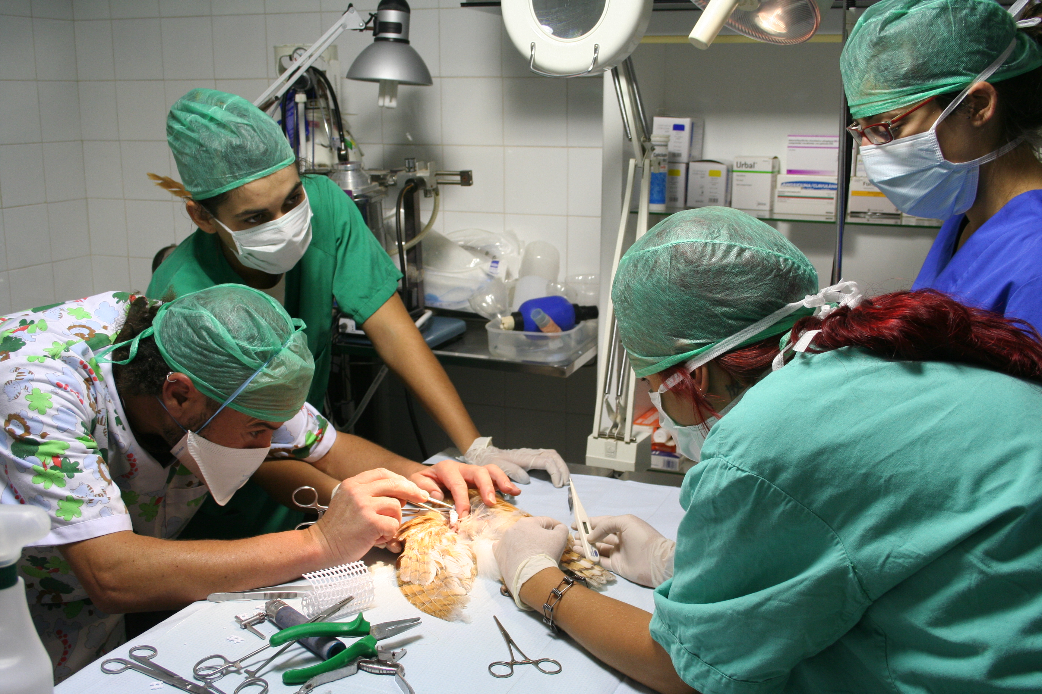 The veterinary team of AMUS (Acción por el Mundo salvaje) performing surgery on a bird, joined by volunteers.